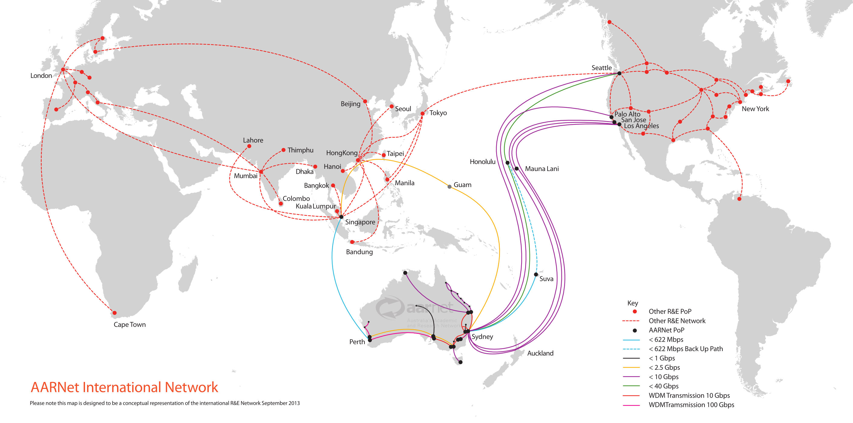 This is a map of the AARNet international optical fibre network, as at September 2013. It is a conceptual representation in that it does not purport to show the exact paths of the optical fibres between the nodes.